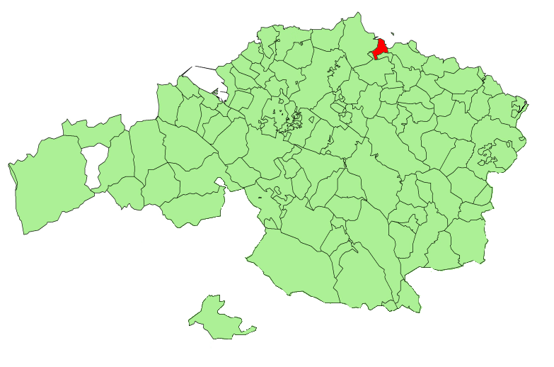 Mundaka municipality in the province of Biscay